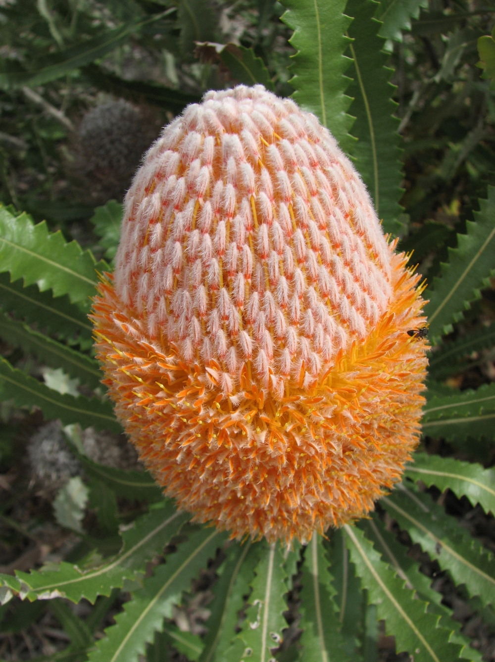 Banksia burdettii (cultivated, labelled) Australian Garden, Royal Botanic Gardens Cranbourne, Victoria, Australia